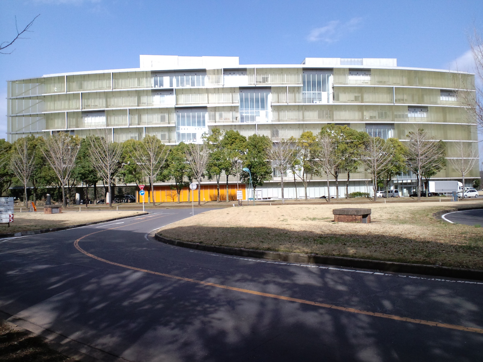 Buildings of Advanced Reserch Center D in University of TSUKUBA.